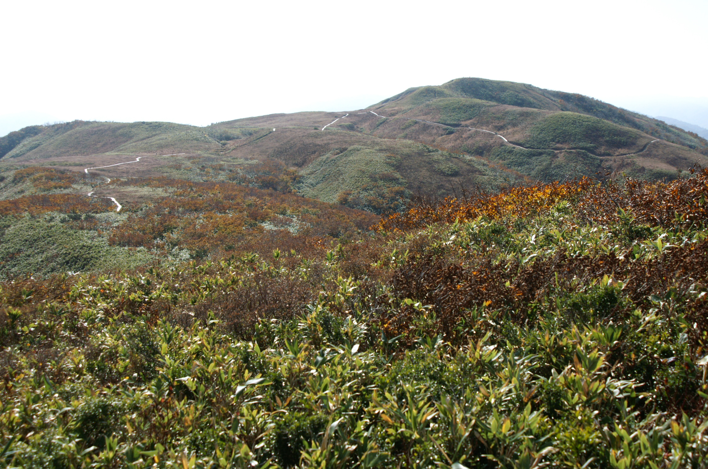 A view of the Top of Shirakigamine as seen from the northeast.